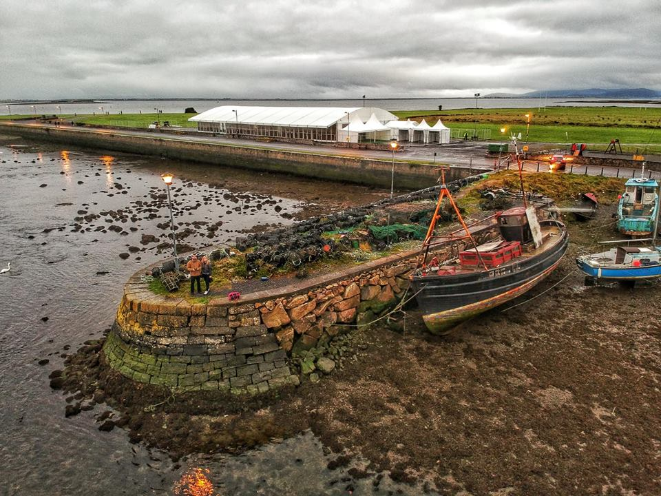 Boats at the Claddagh Quay, Galway harbour, Low Tide